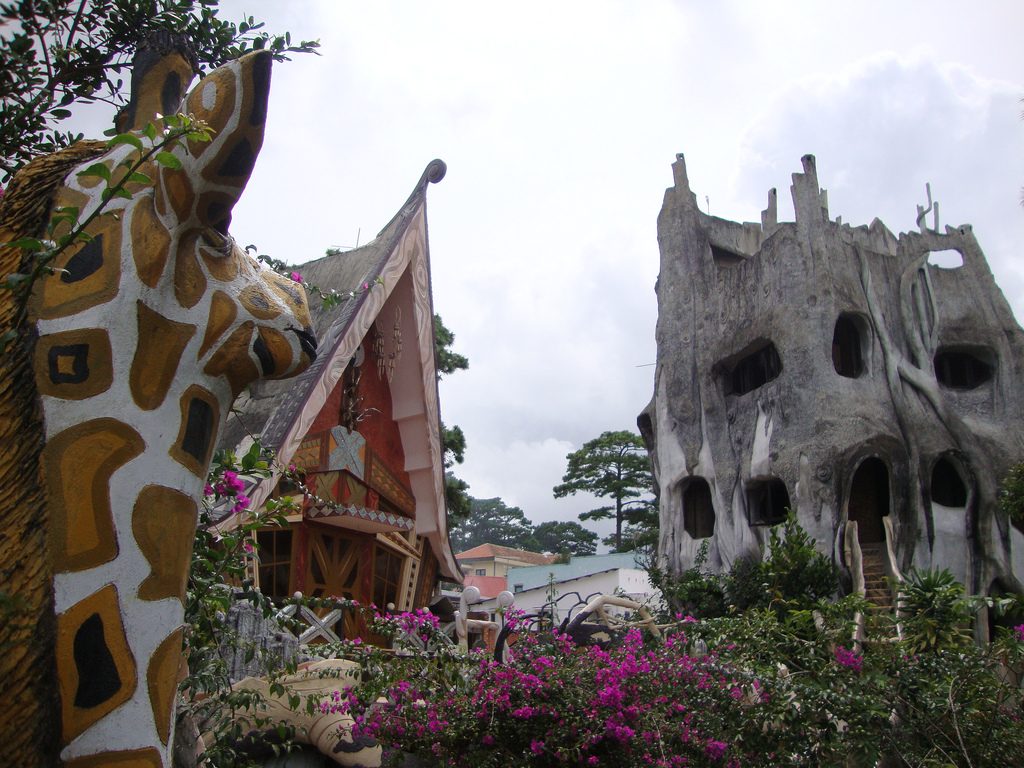 Hang Nga guesthouse